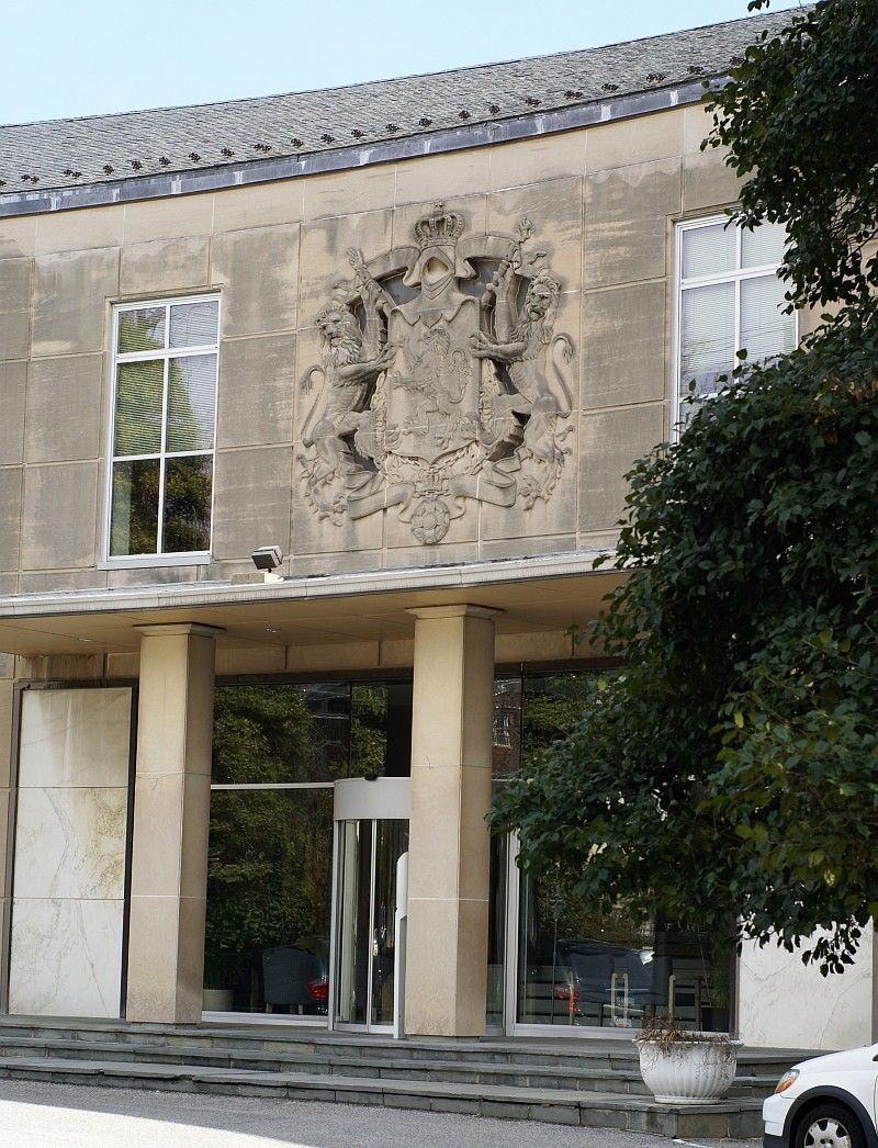 Embassy of Belgium, Washington, D.C.